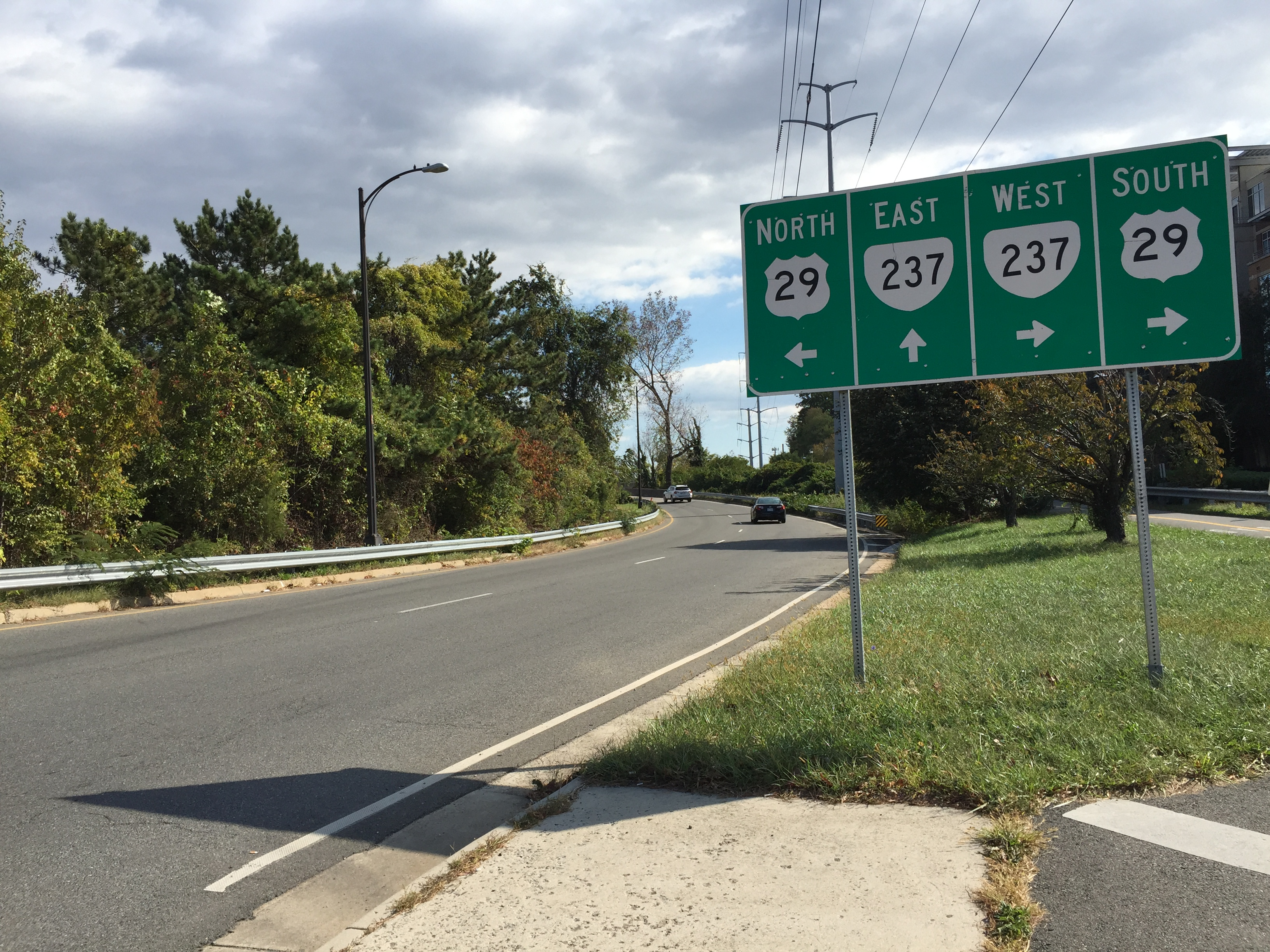 View east along Virginia State Route 237 (Washington Boulevard) at U.S. Route 29 (Lee Highway) in Arlington County, Virginia